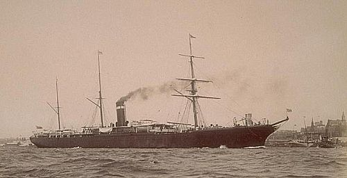 SS City of Berlin